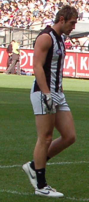 Travis Cloke before game vs Melbourne (round 11)